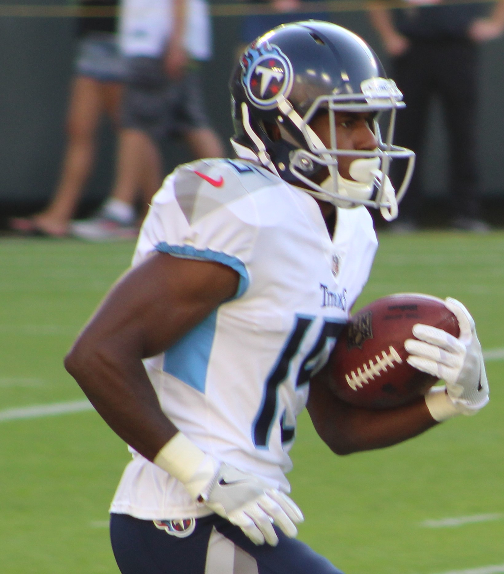 Darius Jennings, Tennessee Titans at Green Bay Packers (Preseason), August 9, 2018